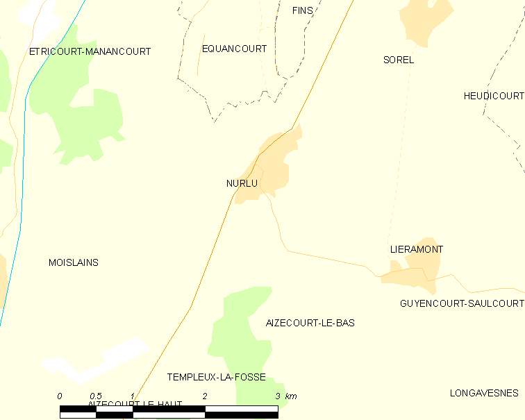 Map of French municipality Nurlu